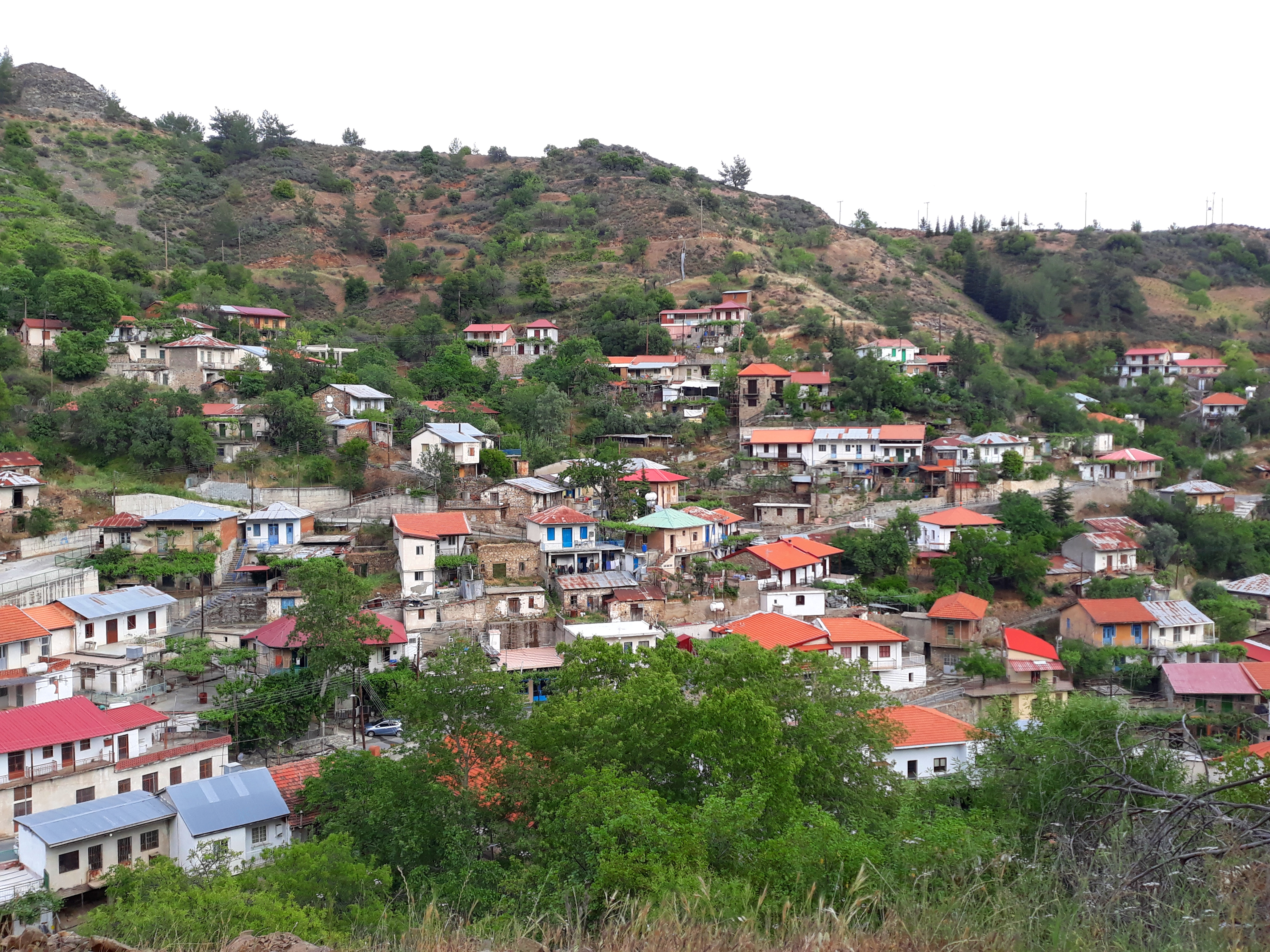 View of Kaminaria.